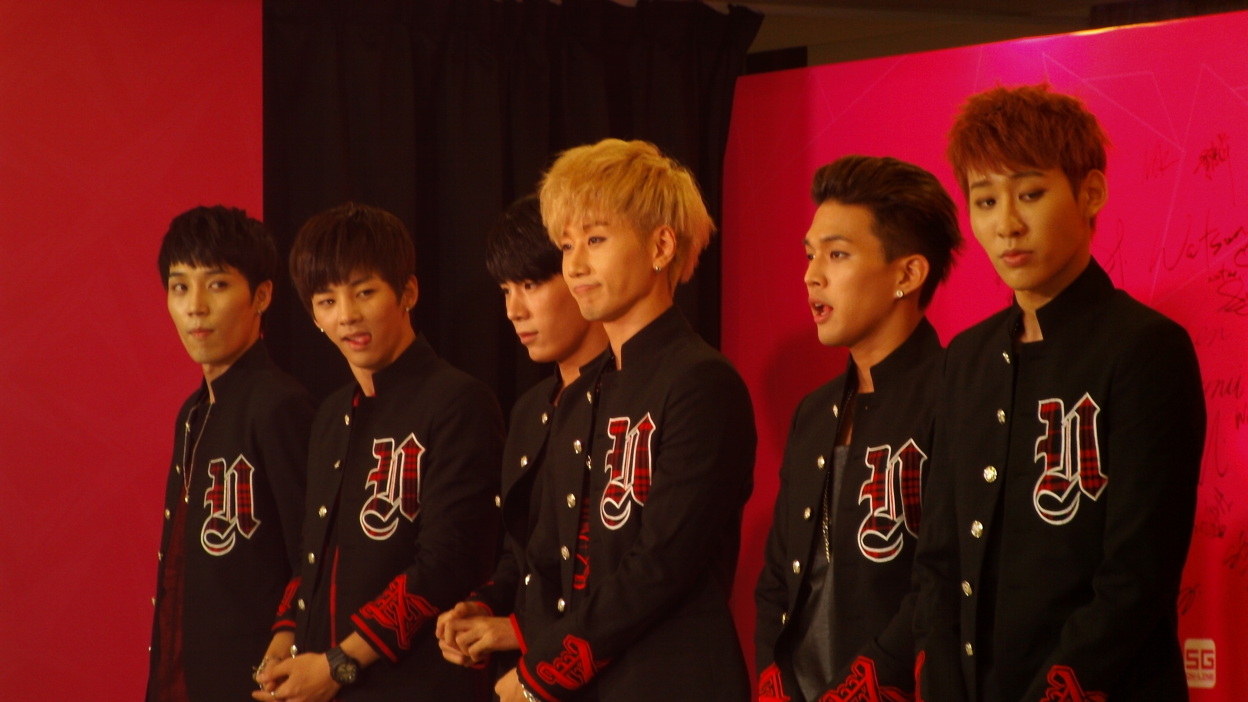 South Korean boy group N-Sonic are having a fans meeting at Kwun Tong Hung To Centre, HK